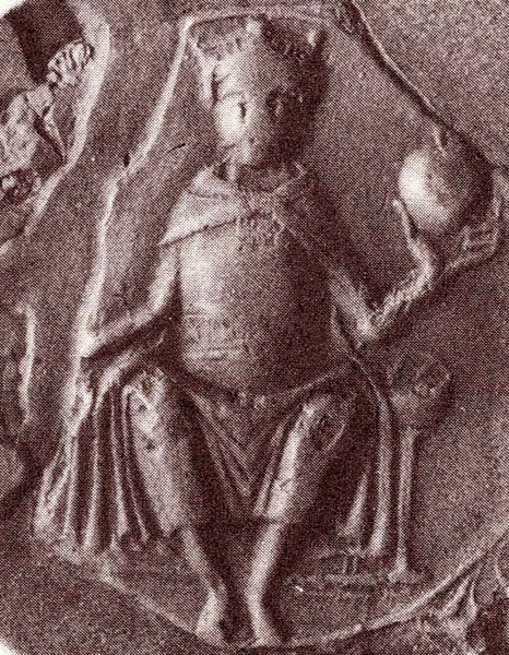 King Carl I of Sweden as depicted on his royal seal